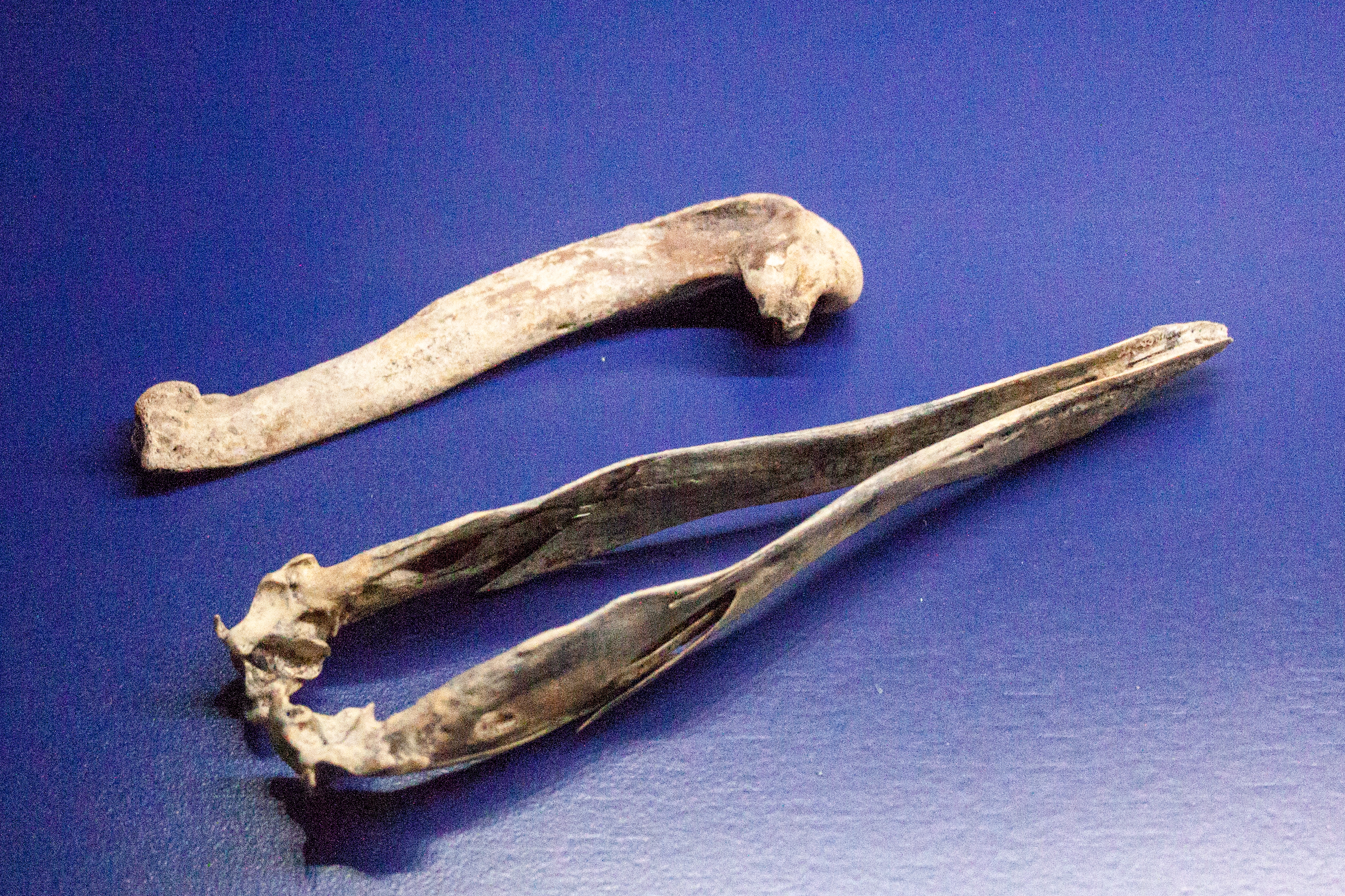 Bones of the great auk